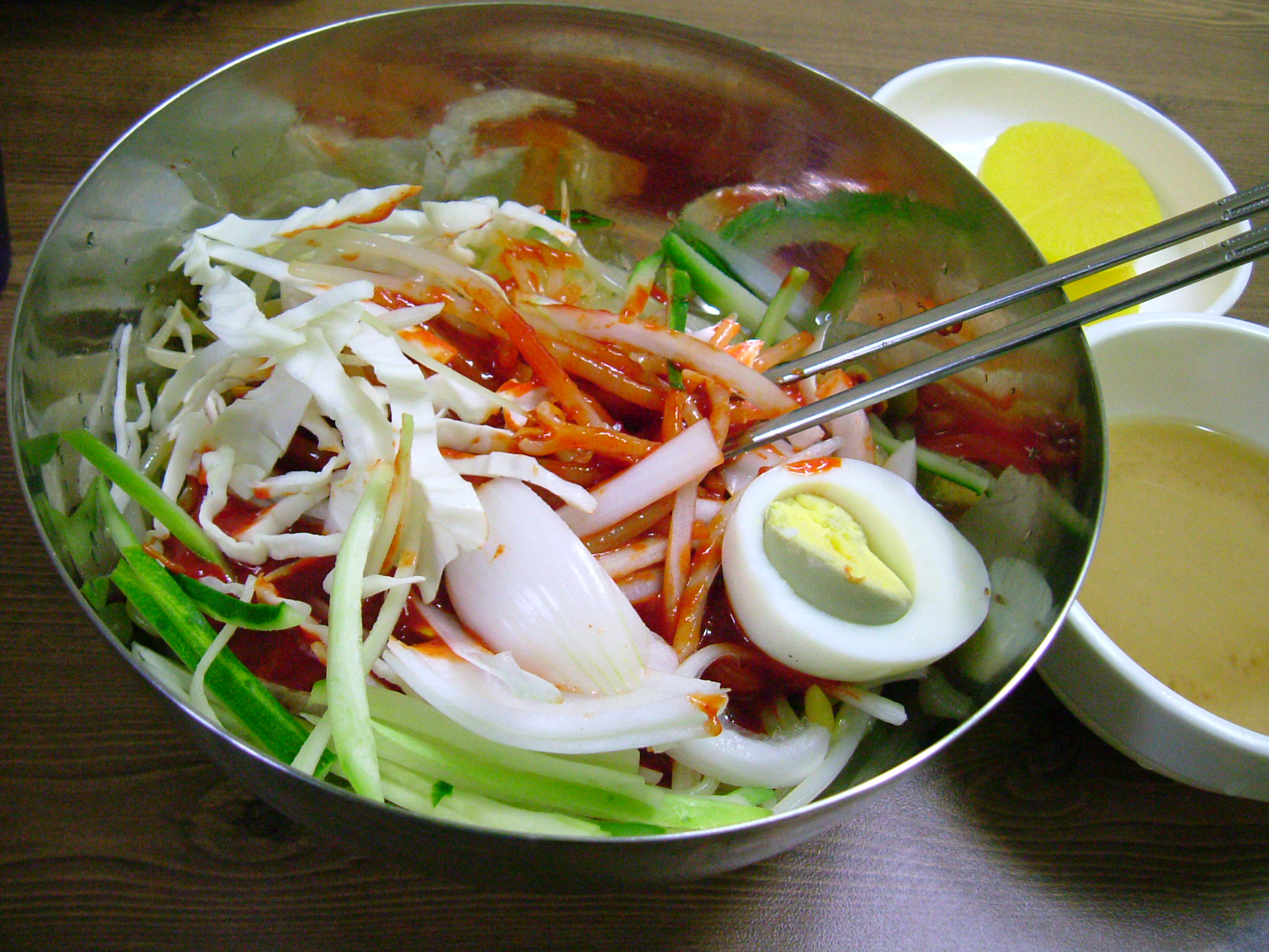 Jjolmyeon.